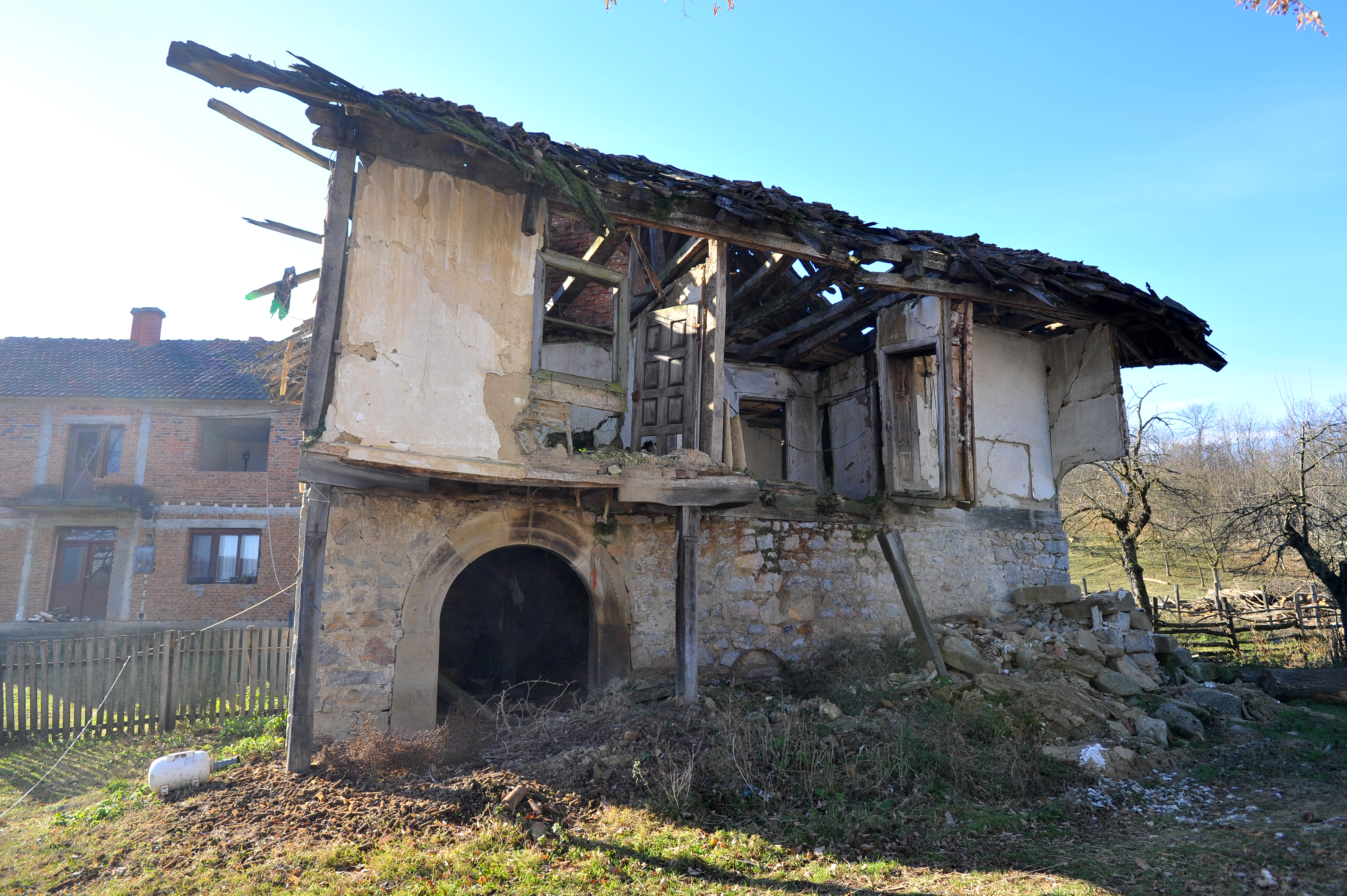 Konak of family Đukić in Ratkovac, Lajkovac